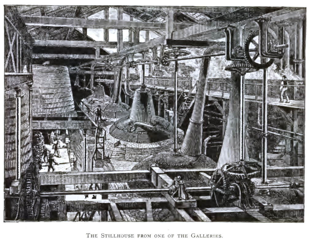 The stillhouse at George Roe's Thomas Street Distillery circa 1892. With eight pot stills, the still house was likely the largest (in terms of equipment) of any whiskey distillery in operation at that time.